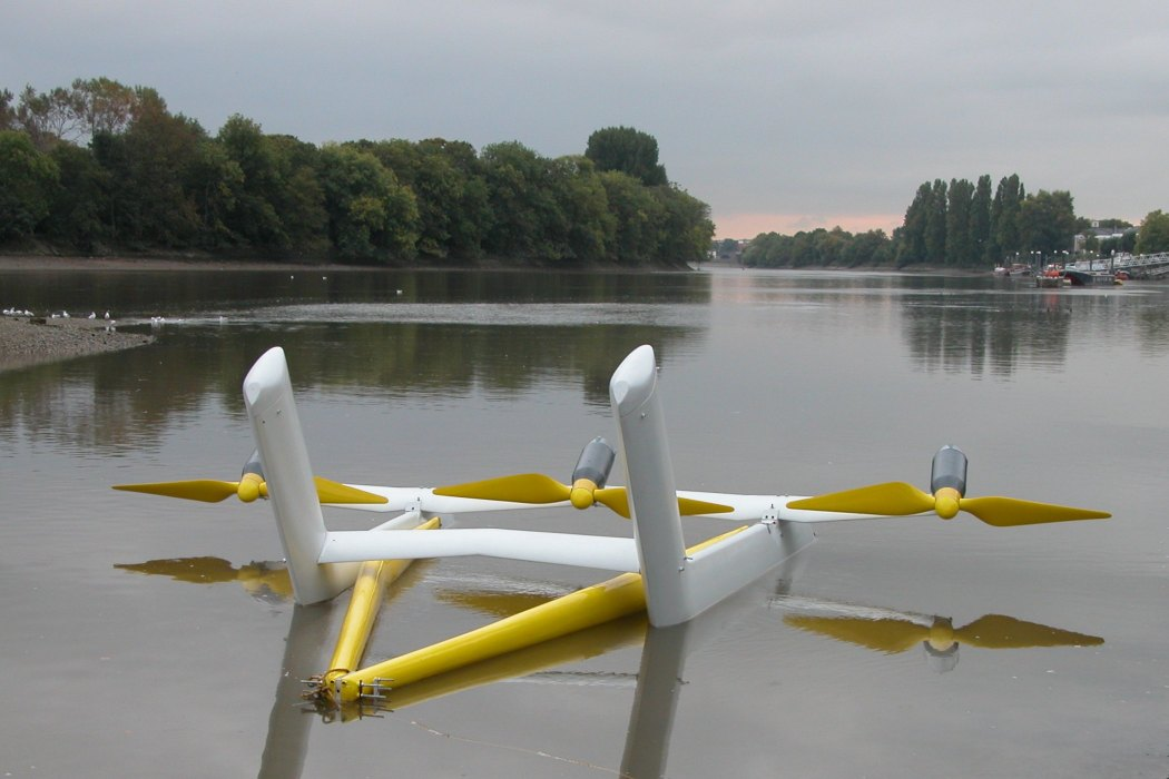 Scale tidal turbine Triton 3 in float-out installation mode in the Thames at Chiswick